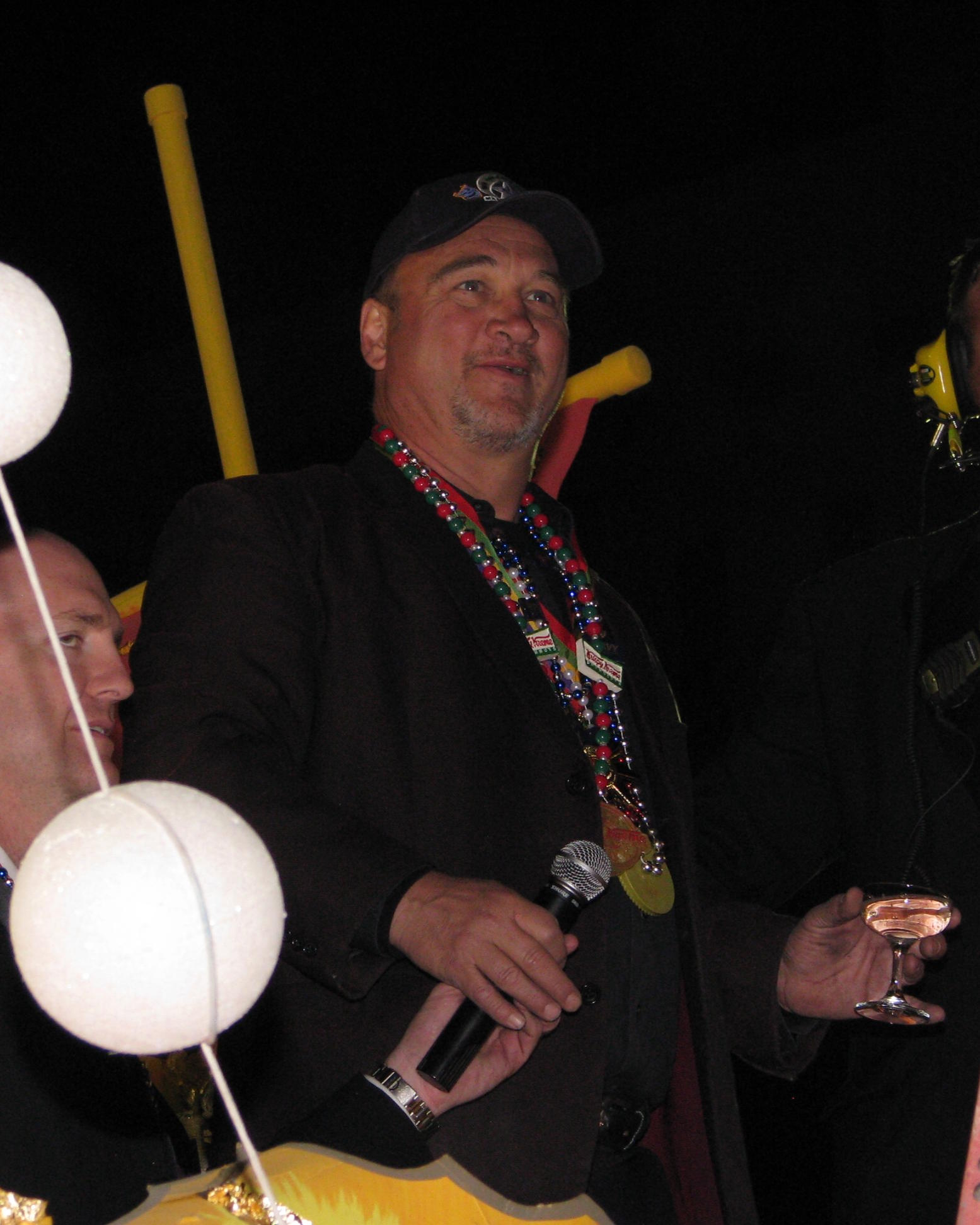 New Orleans Mardi Gras: Jim Belushi riding in the Orpheus parade